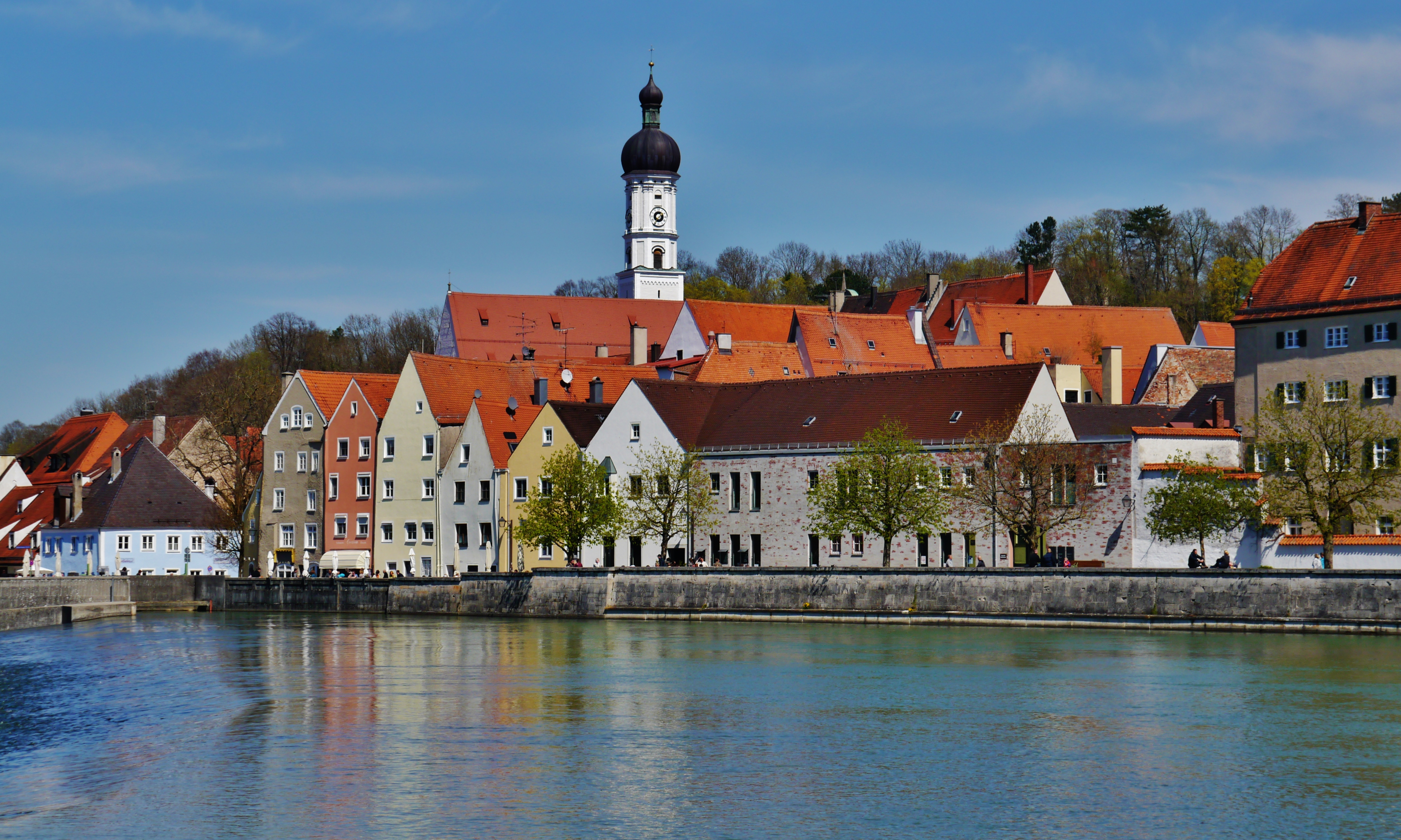 View over the Lech to the Old Town, Landsberg, Bavaria, Germany